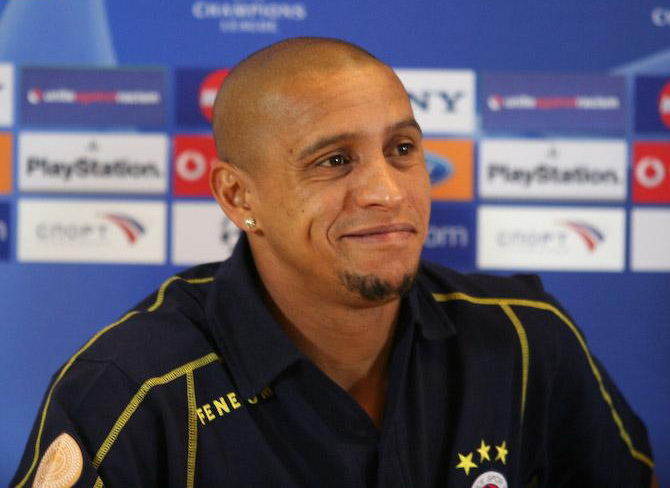 Roberto Carlos